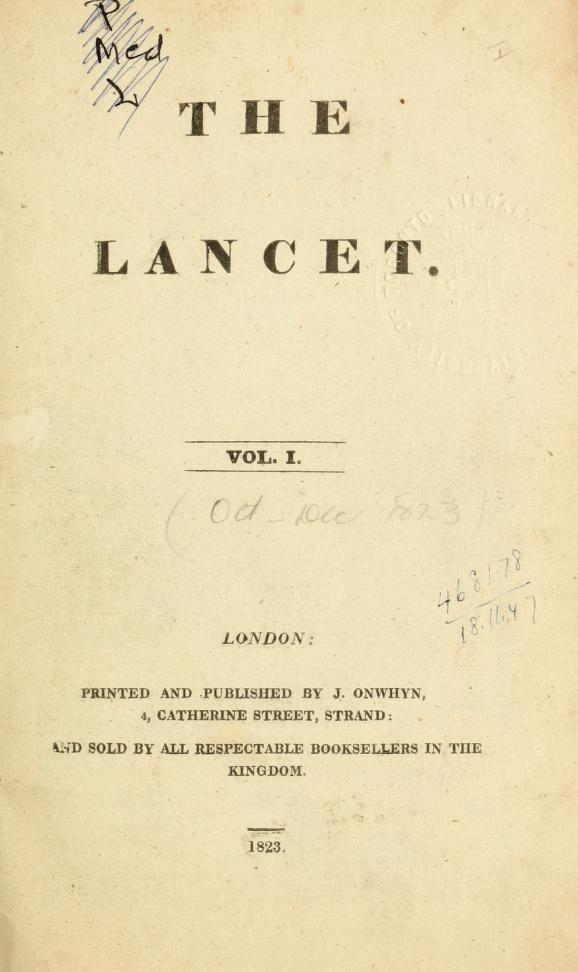 The Lancet vol1 1823